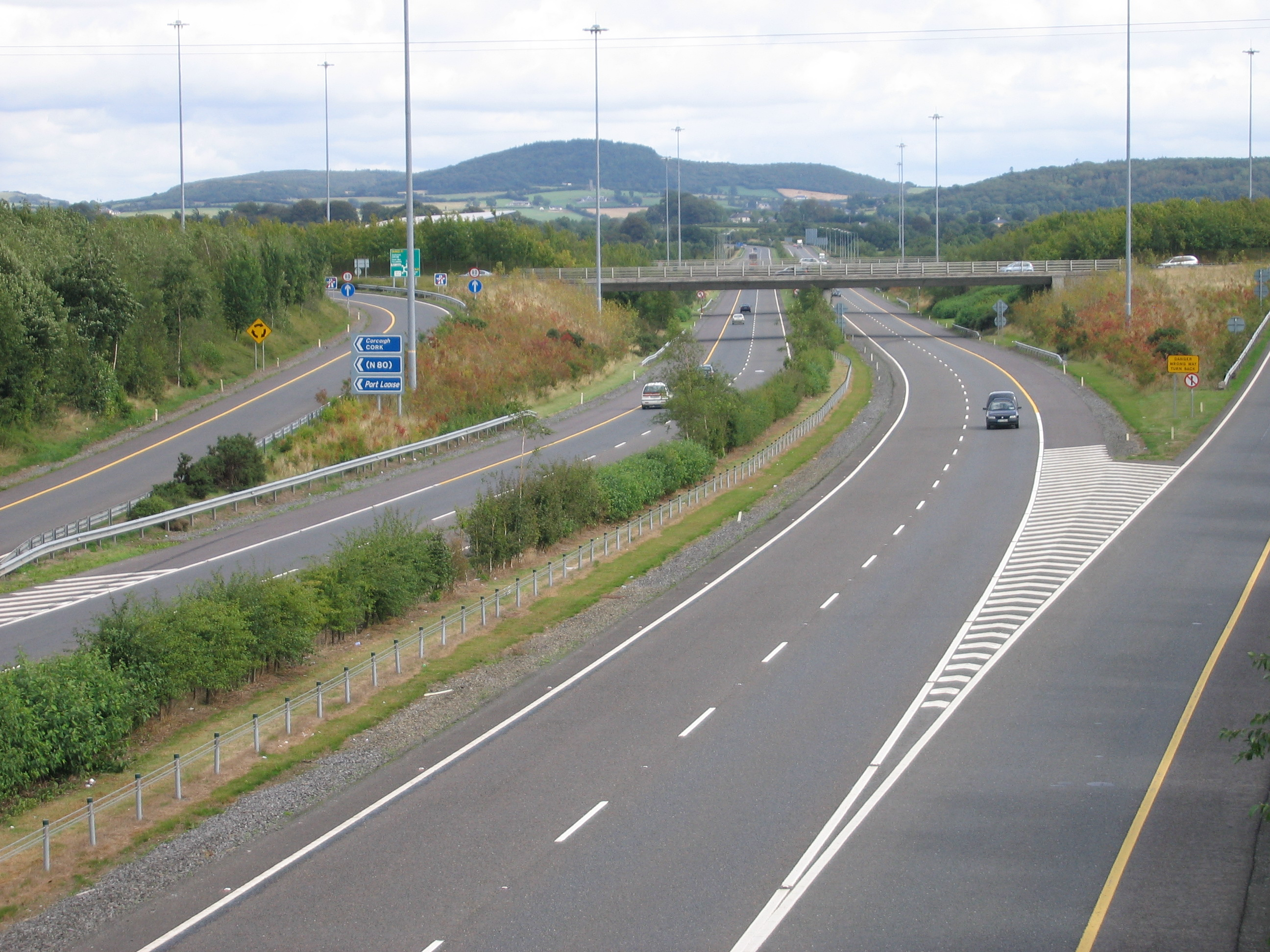 The junction where the N8 starts/terminates at its northern end, near Portlaoise, the N8 is carried across the motorway on the bridge in picture. (This is J17 on the M7). Current proposals are for the M7 to be extended to Castletown in Co. Laois and a new M8 motorway will branch from it about 14km west of J17, above. Construction of the new M7 and M8 sections of motorway is expected to begin in late 2007. The new stretches of motorway will be tolled.